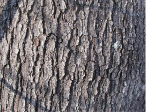 Red maple bark Image taken by me, released under GFDL Pollinator 05:48, 19 Feb 2004 (UTC)